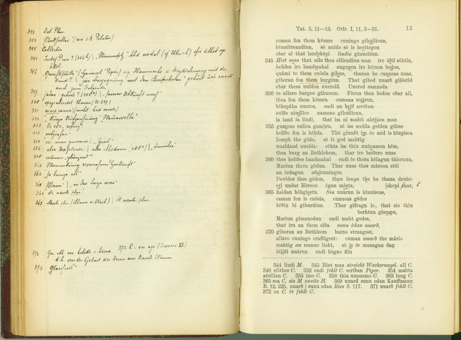 Heliand, page 15 with remarks for the next edition